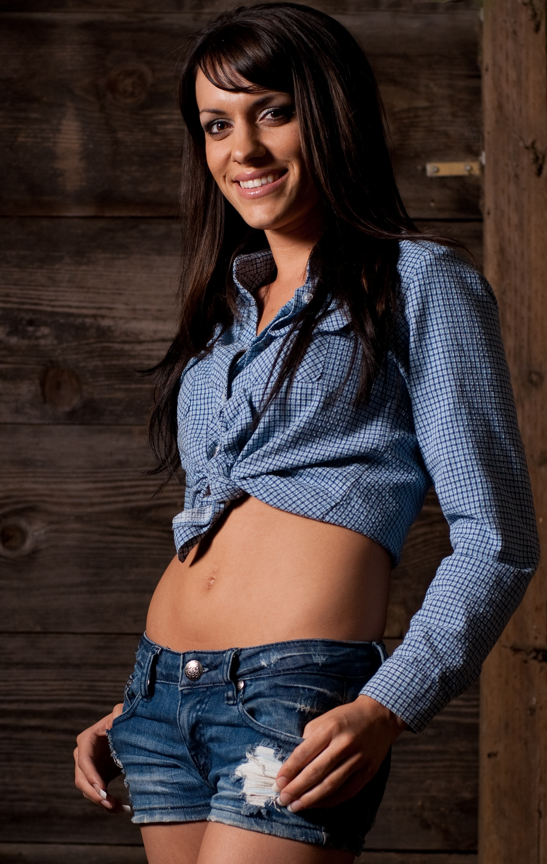 STROBIST INFO: -Alien Bee B1600 with 24" shoot through umbrella. About 30 degrees camera left. -Triggered with Cactus V4. -Powered by Vagabond II